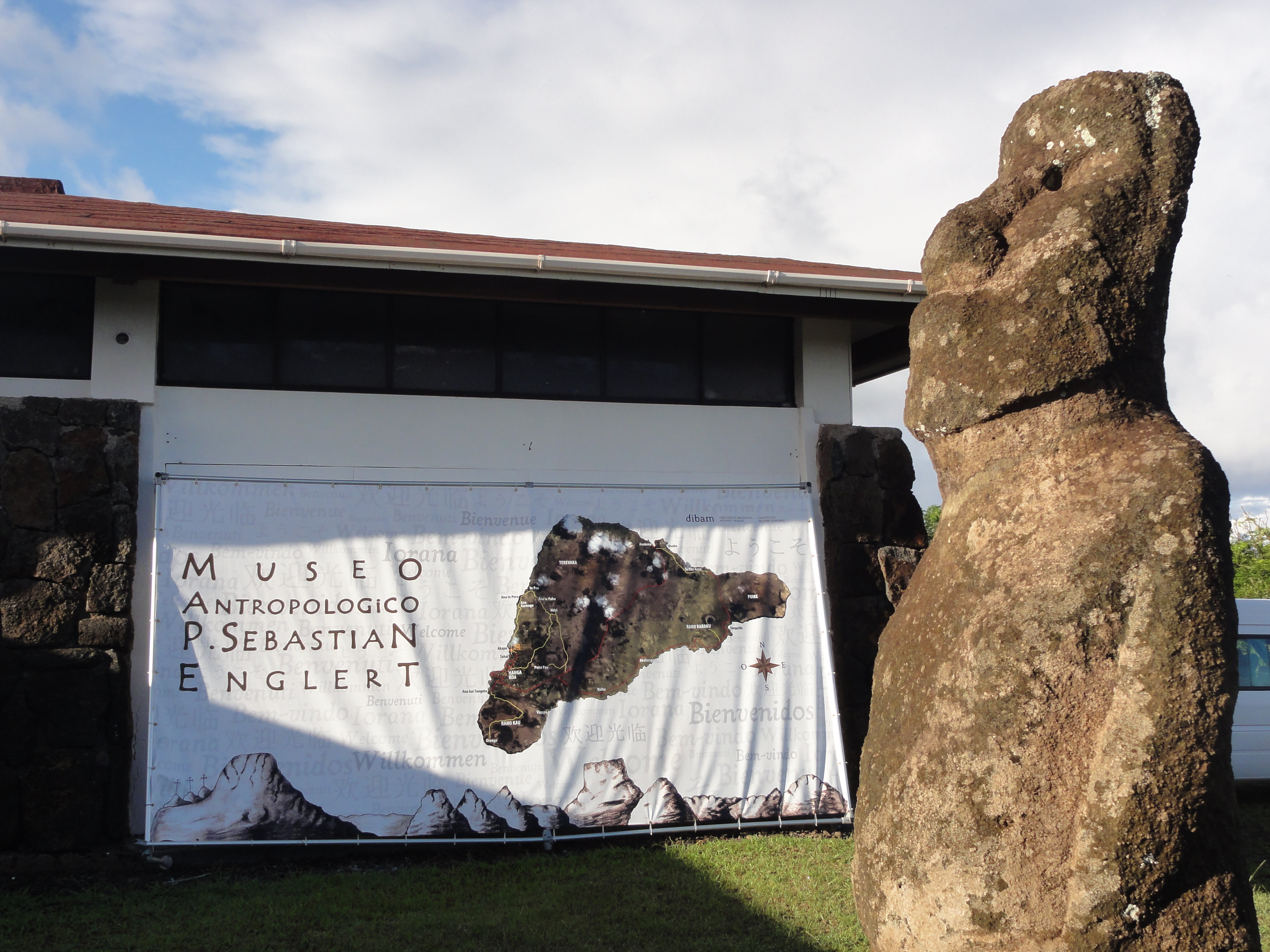 Museo Antropologico P. Sebastian Englert, Rapa Nui (Easter Island)